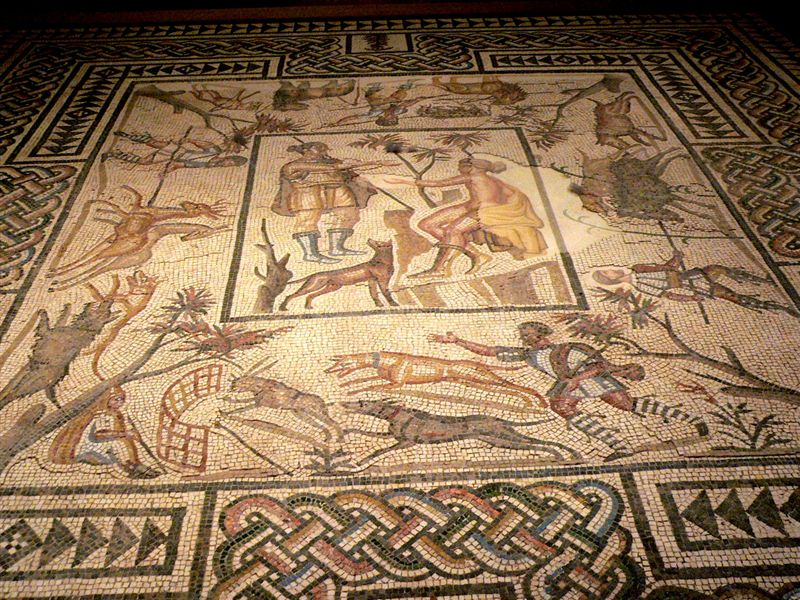 3rd Century CE Roman mosaic floor from Villa Laure, Villelaure, Vaucluse, France, in Los Angeles County Museum of Art, California, USA